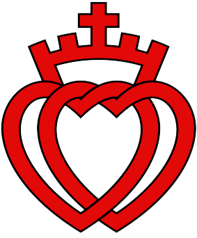 The red heart is associated with the Vendée region in France - most notable for its resistence of the Jacobins and the French Revolution where the locals, steadfast in their faith and traditions, rose up in counter-revolution. The symbol is used as a logo of several Societé of Saint Pius X branches. [1]